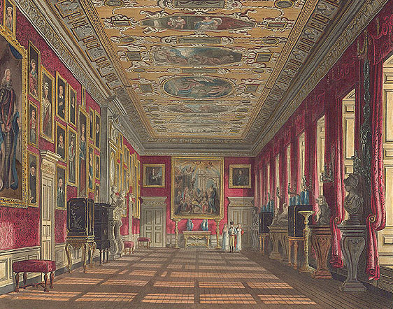 The King's Gallery at Kensington Palace from The History of the Royal Residences by W.H. Pyne (1819), plate 66.